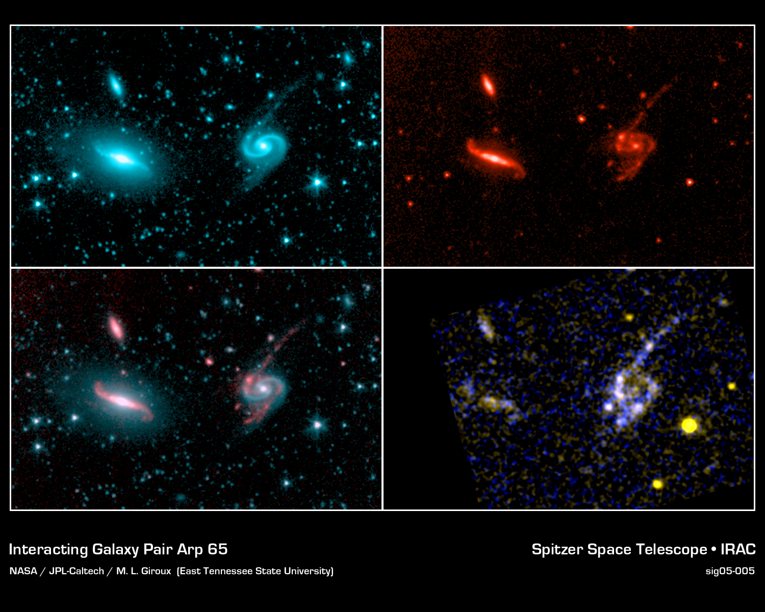 Interacting Galaxy Pair Arp 65